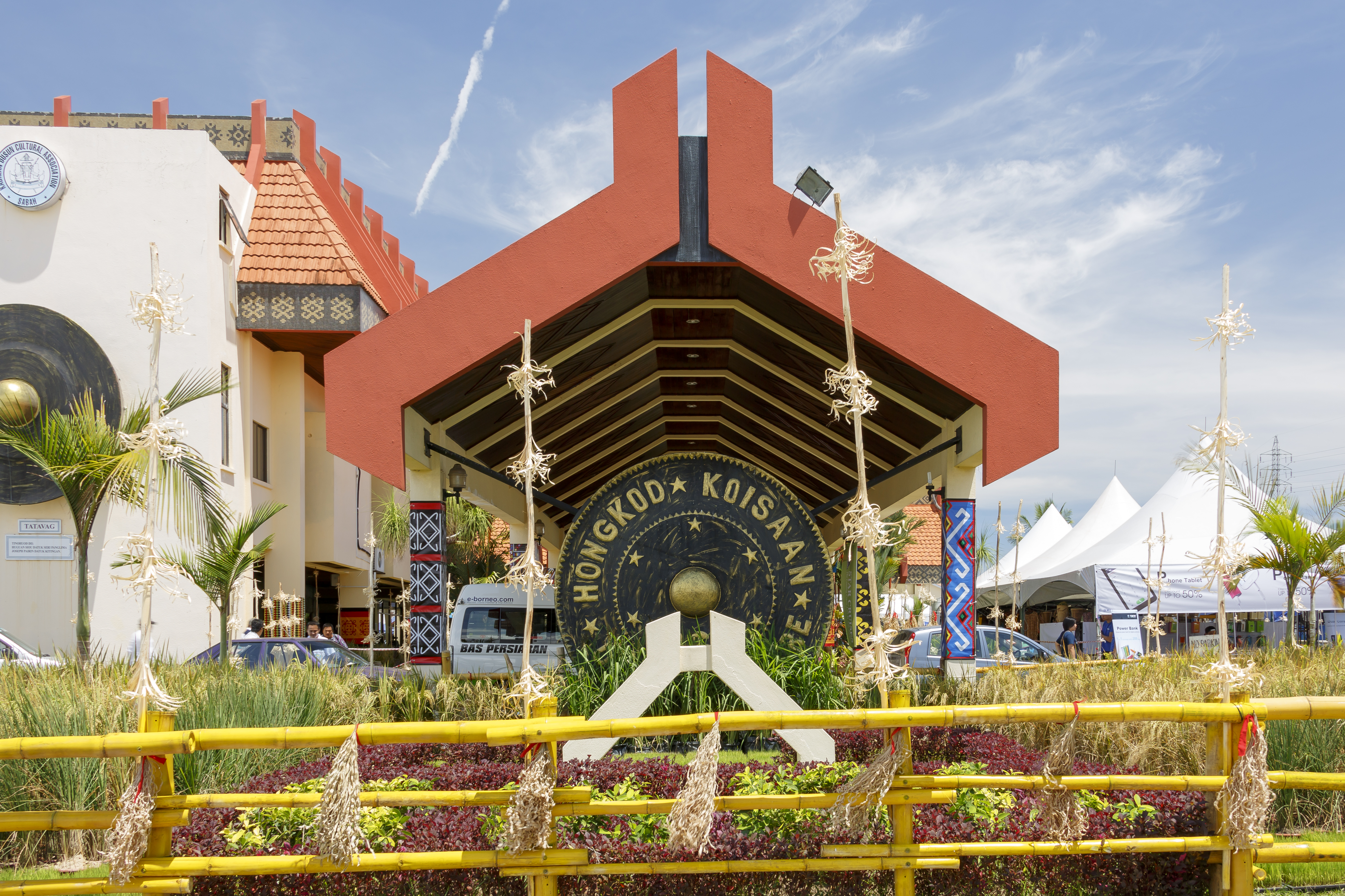 Penampang, Sabah: The big gong in front of Hongkod Koisaan, the unity hall of KDCA. The fence is decorated with hisad.